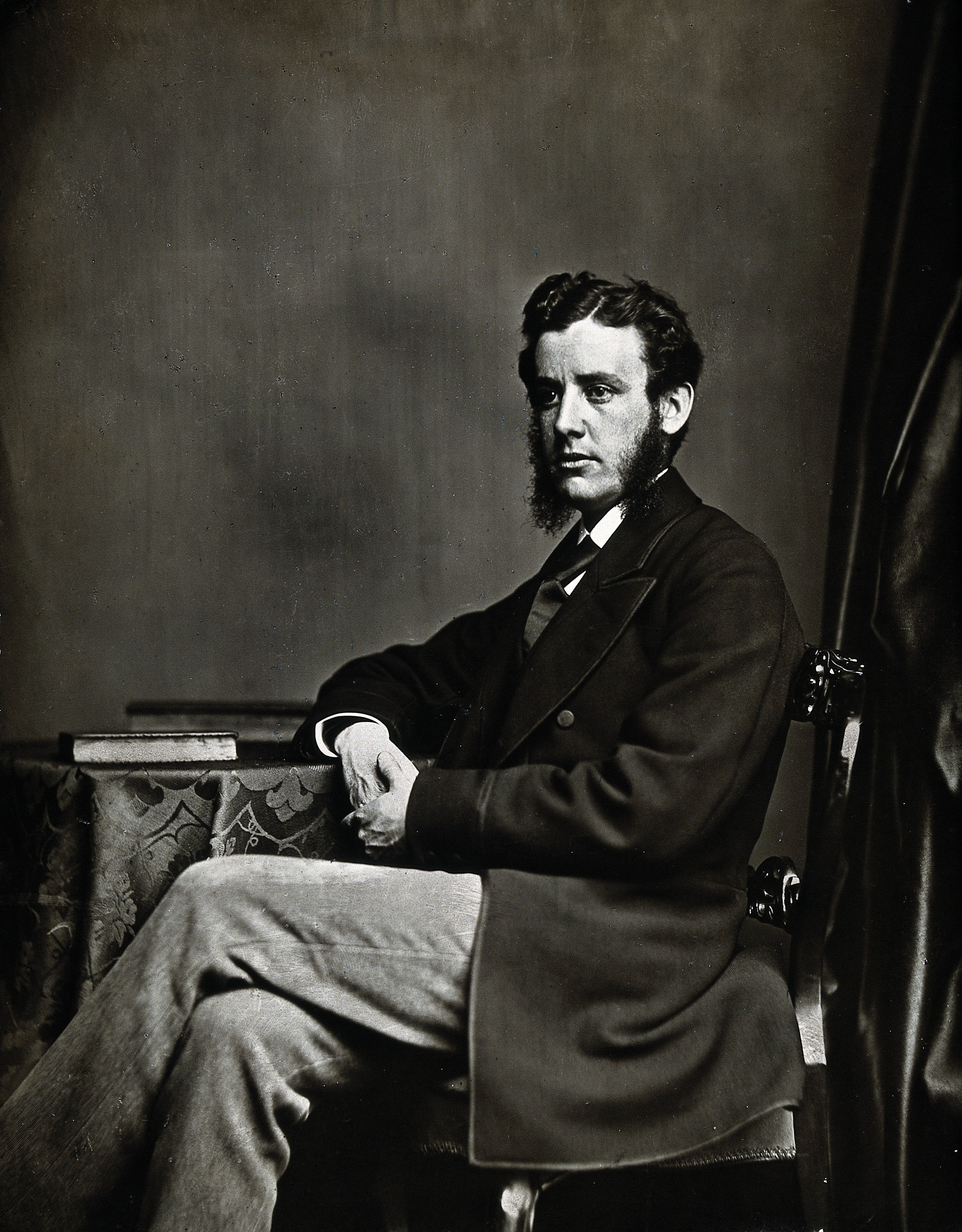 Sir Hector Clare Cameron. Photograph. Iconographic Collections Keywords: portrait photographs